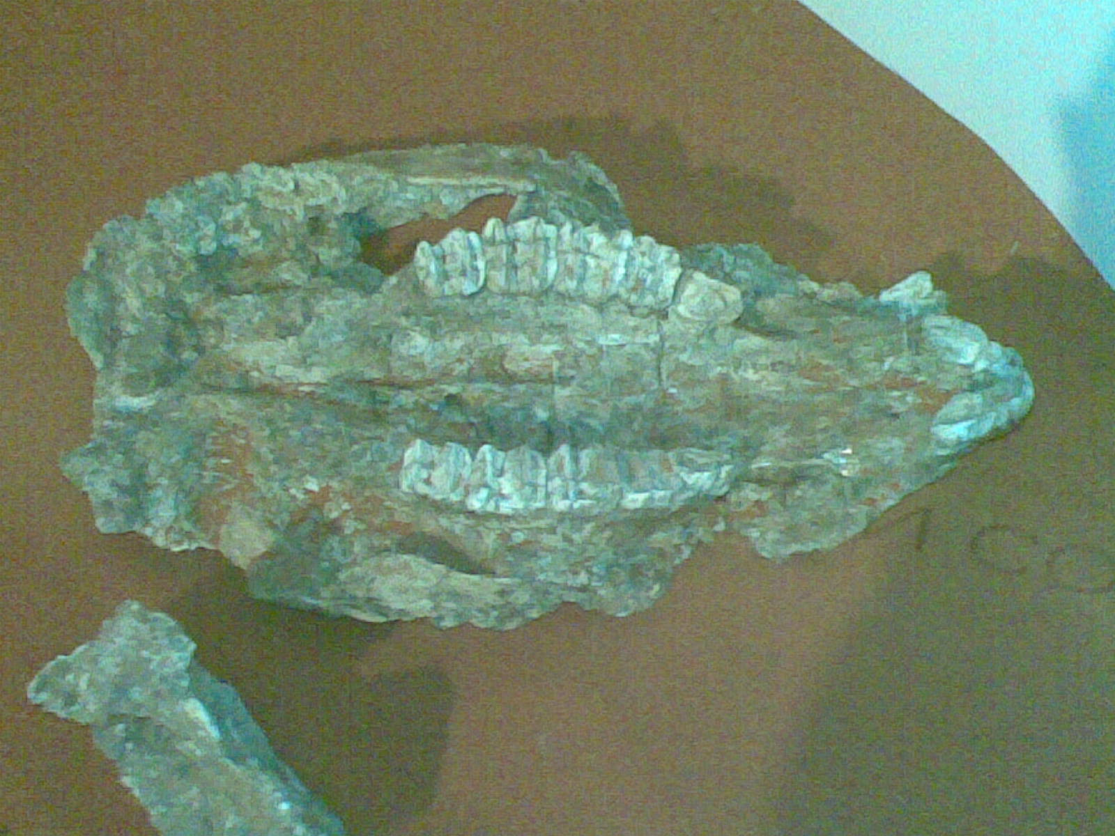 Palatal view of Sthenurus (species unknown). Museum of Victoria.